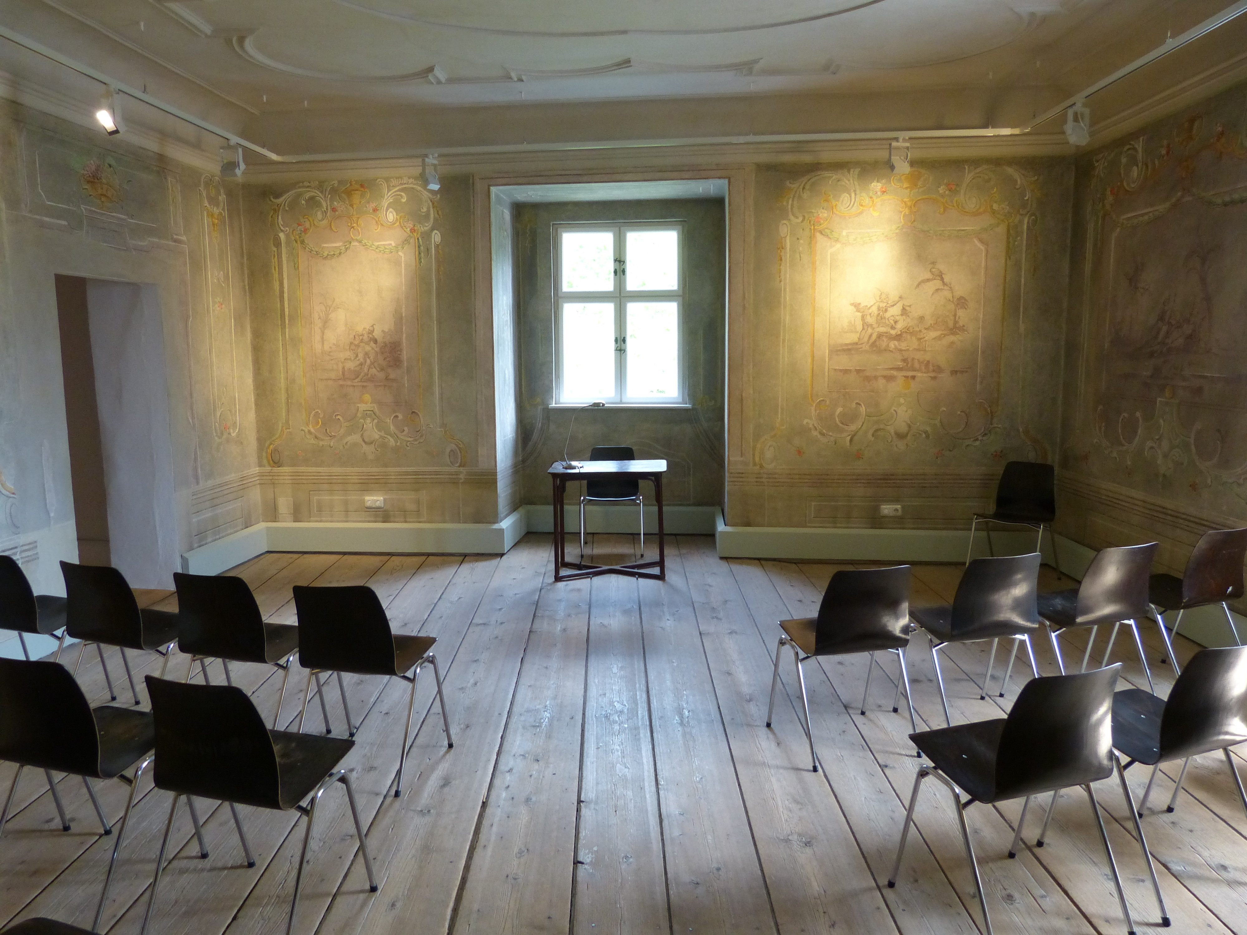 Freyung ( Lower Bavaria ). Wolfstein castle: So called "Prince hall" with murals ( 1779 ) by Joseph Widemann ordered by Bishop Firmian of Passau.This is a photograph of an architectural monument.